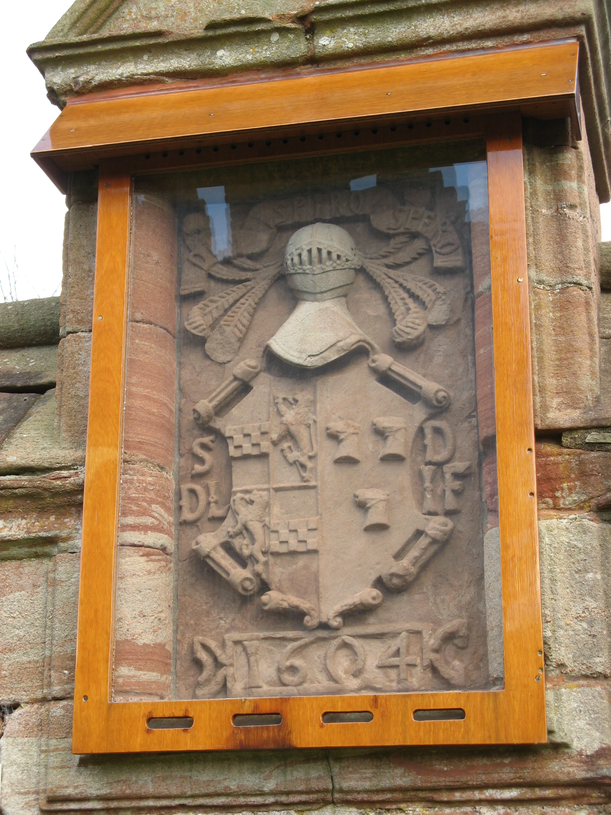 Edzell Castle, Angus, Scotland. Arms of Sir David Lindsay and Dame Isabel Forbes over the garden gate.